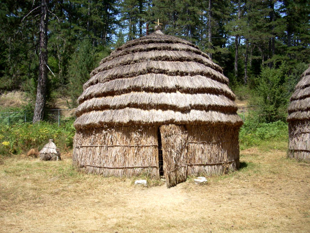 Reconstructed sarakatsani hut; Gyftokampos, Ioannina Prefecture, NW Greece